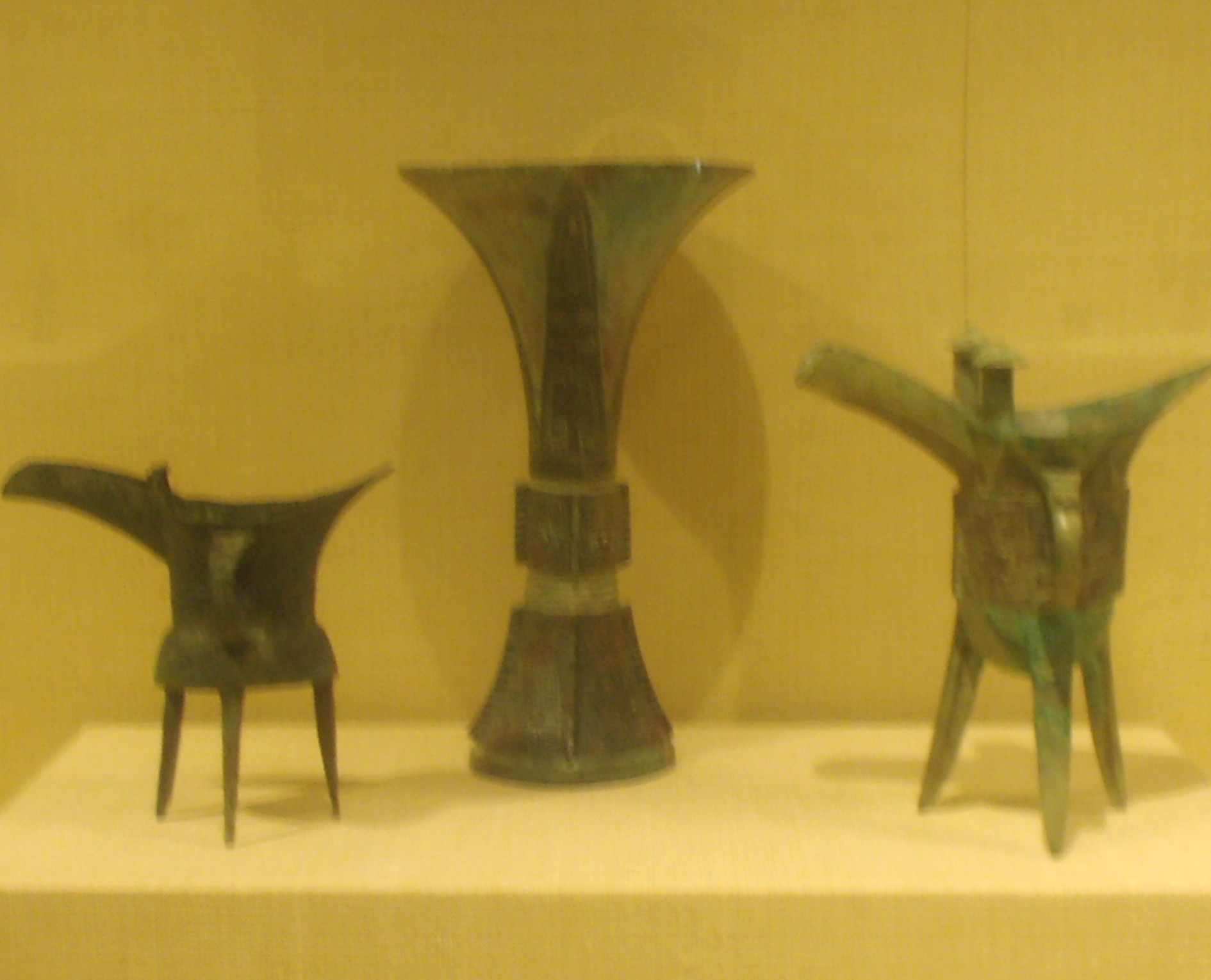 Two Chinese jue flanking a gu; ritual bronze wine vessels from the Shang Dynasty, dated to the 12th century BC.